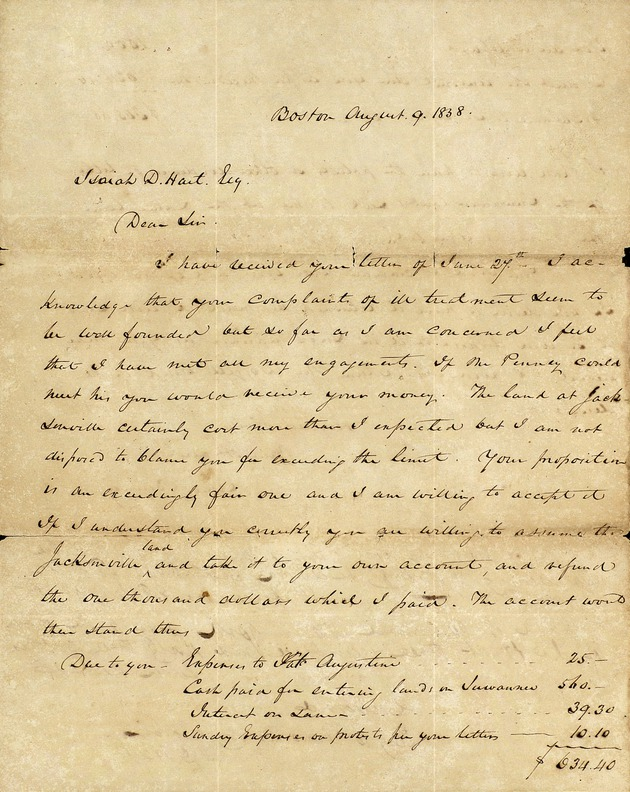 Letter to Isaiah D. Hart from Amos Binney regarding land in Jacksonville, Florida, dated August 9, 1838